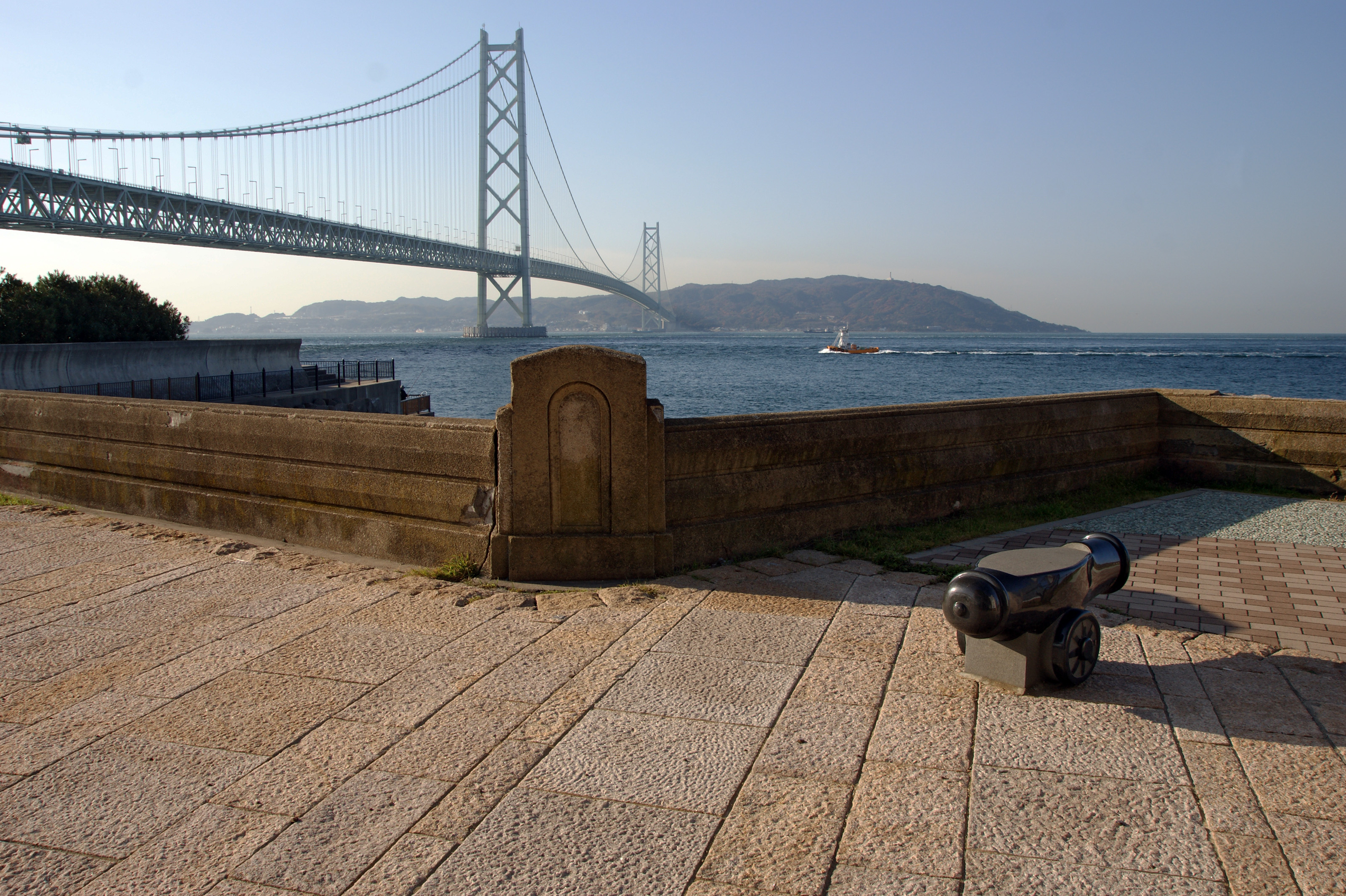 Akashi-han Maiko-daibaato (Maiko Park), Kobe, Hyogo prefecture, Japan